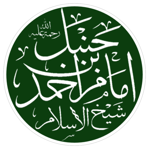 Calligraphic name of Ahmad ibn Hanbal